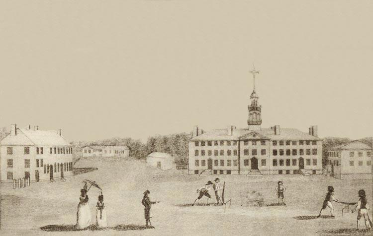 A front view of Dartmouth College, with the Chapel, & Hall